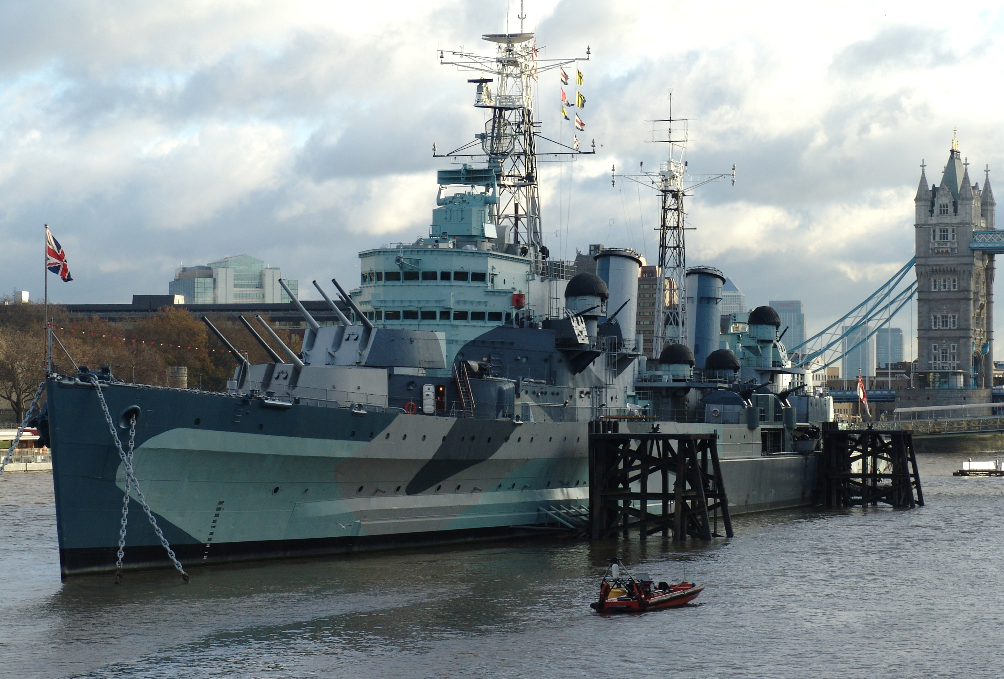 HMS Belfast (C35), London, England. HMS Belfast at her London berth, with Tower Bridge behind, 16 December 2005. Brightened, cropped and straightened version.